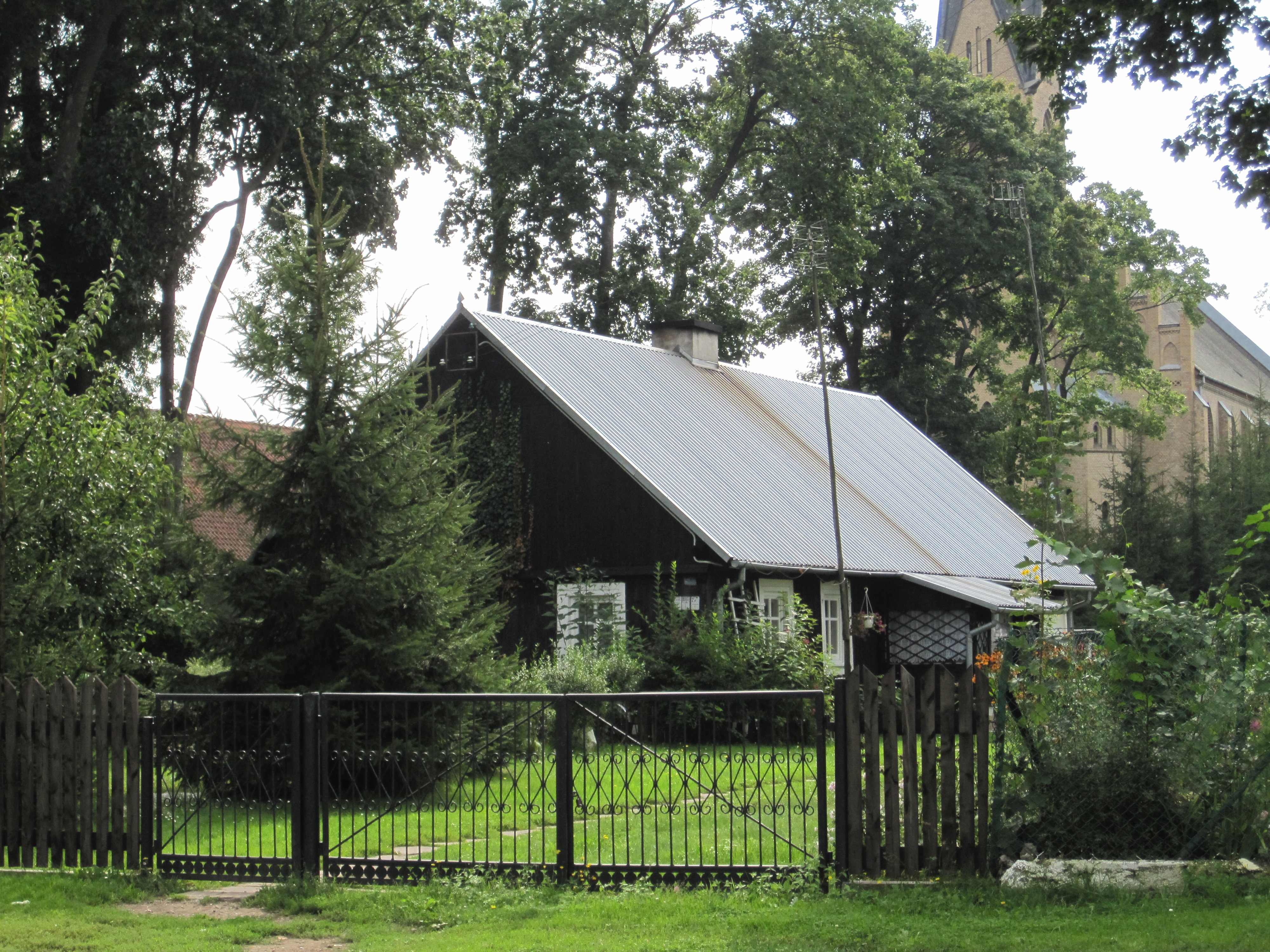 Rozofi - wooden building